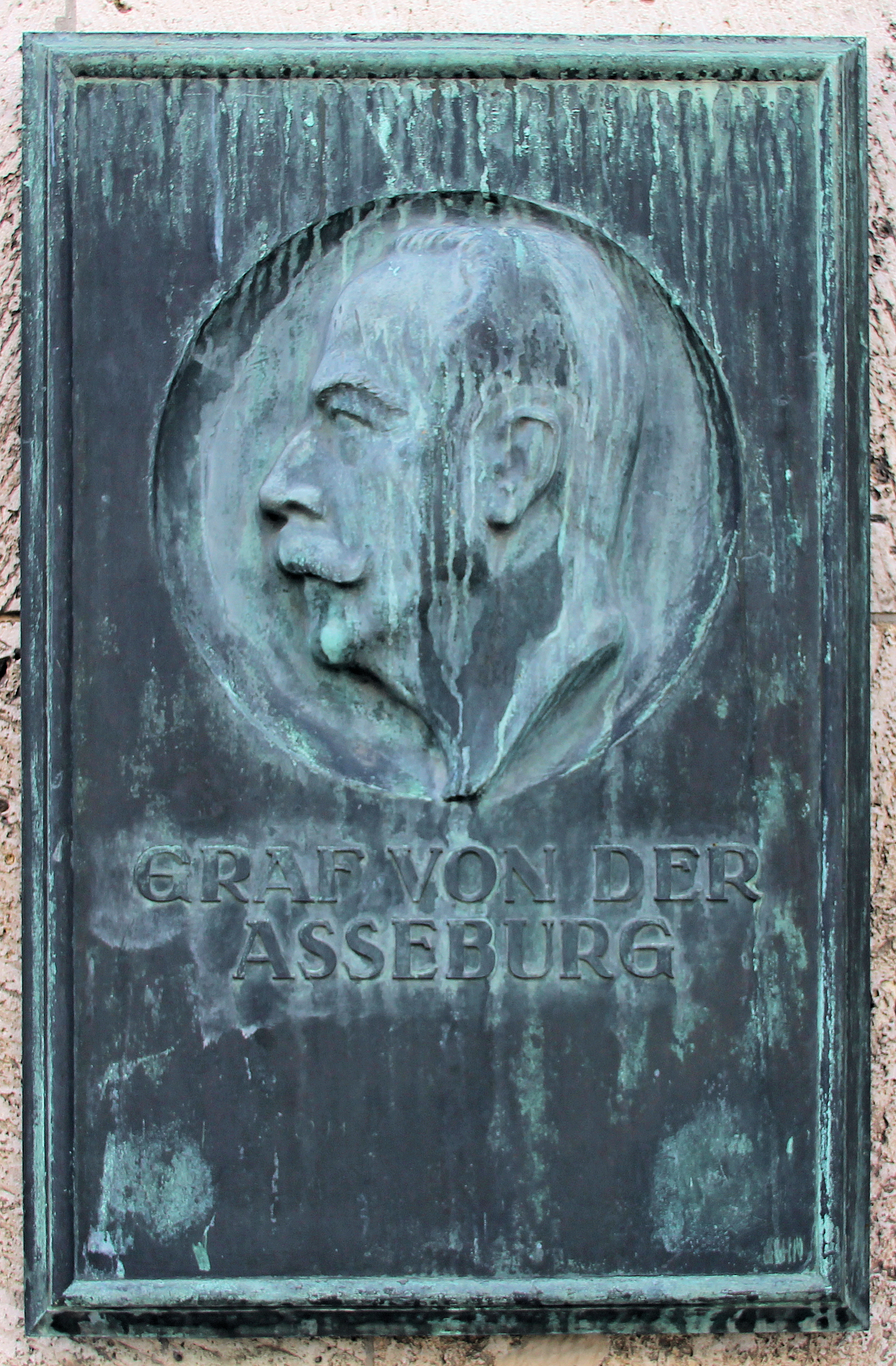 Memorial plaque, Graf Egbert Hoyer von der Asseburg, Olympischer Platz 4, Berlin-Westend, Germany Koordinate:52°30′54″N 13°14′34″E / 52.515°N 13.24278°E